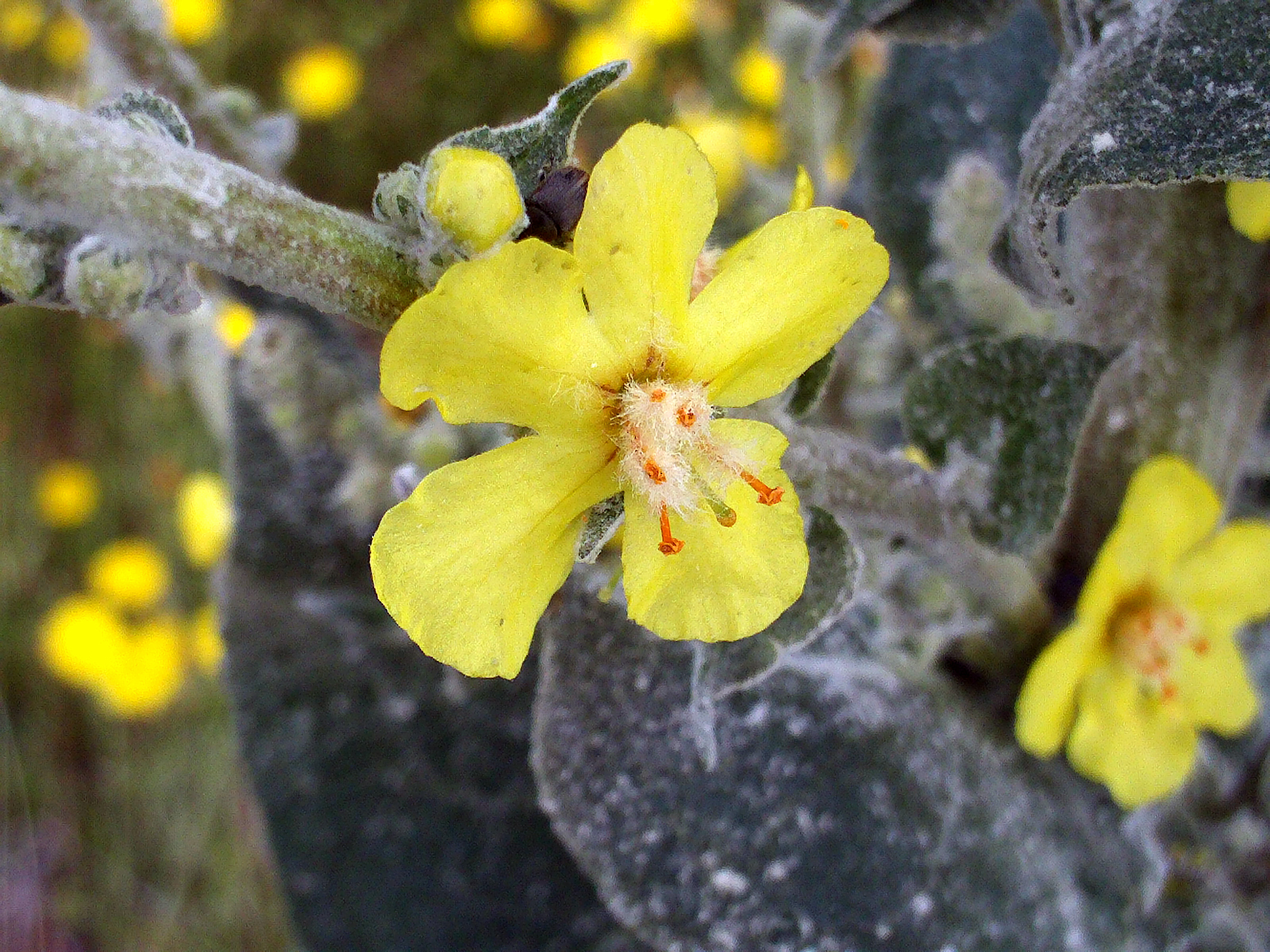 Verbascum pulverulentum flowers close up, Sierra Madrona, Spain